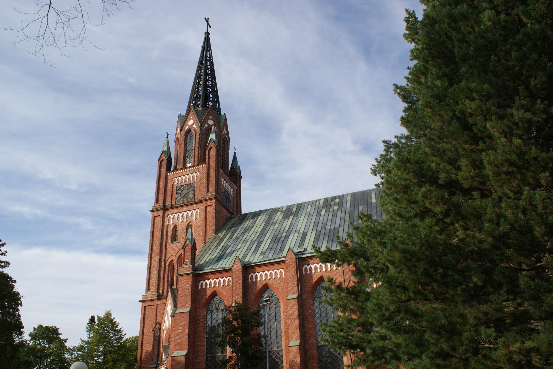 Central Pori Church in Pori, Finland. Architects: G. T. Chiewitz and Carl Johan von Heideken. Built in 1859–1863.